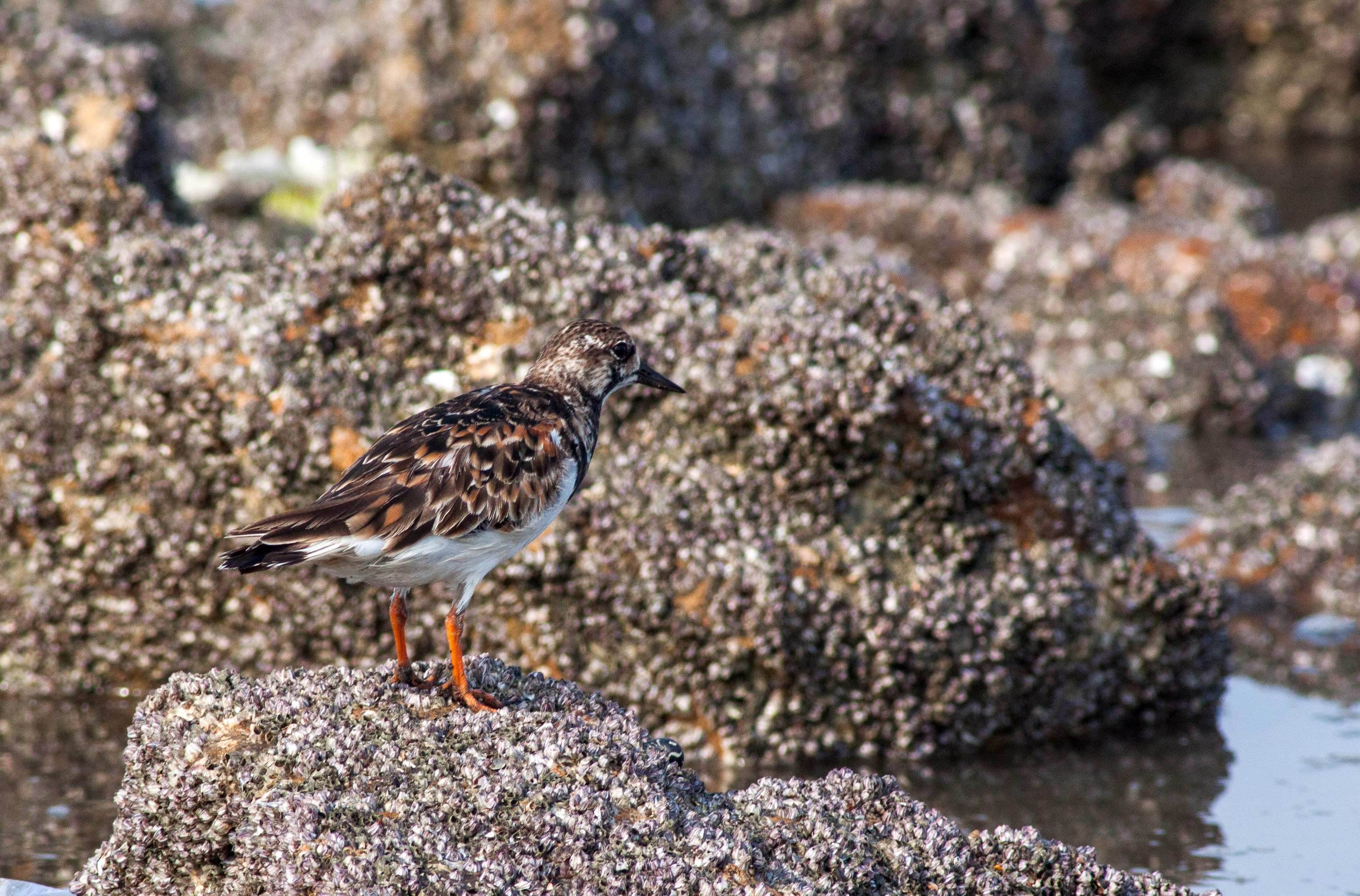 Ruddy Turnstone, Vasai, Maharashtra, India in December